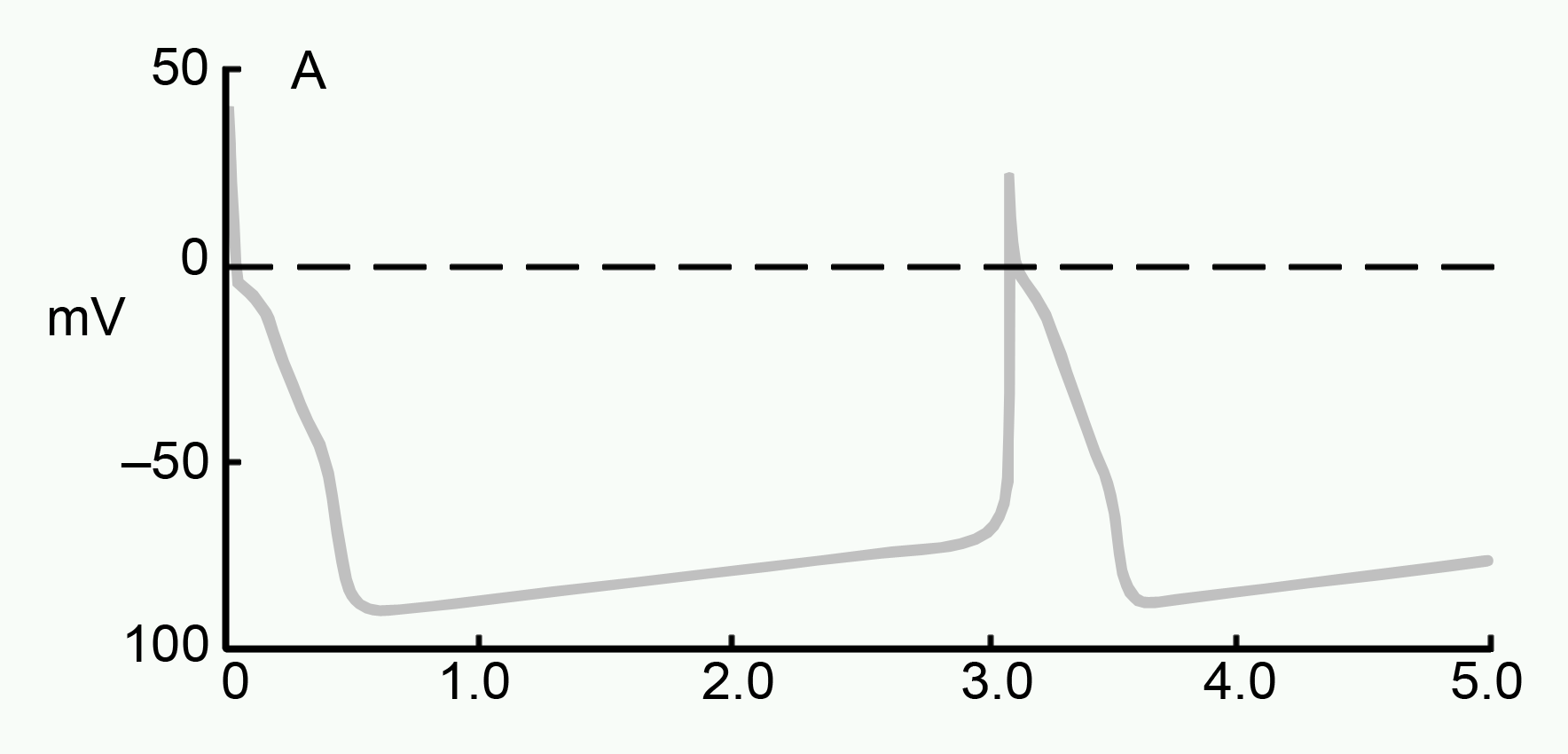 This work has been released into the public domain by its author, PhiLiP. This applies worldwide. In some countries this may not be legally possible; if so: PhiLiP grants anyone the right to use this work for any purpose, without any conditions, unless such conditions are required by law. 从image:Purkinje.jpg重新制图